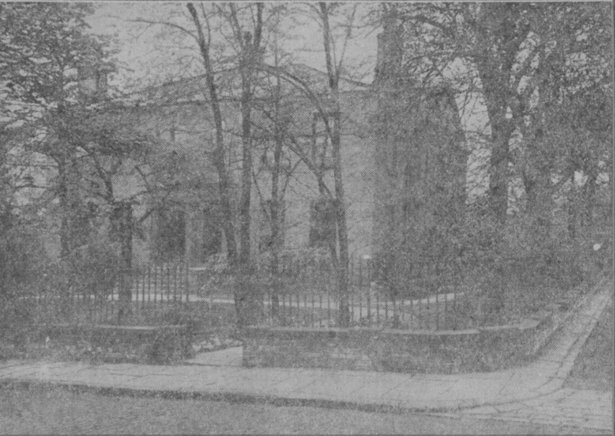 The original building on Springfield Mount, Leeds acquired by the Community of the Resurrection in 1904 to use as a hostel for trainee priests studying at the University of Leeds